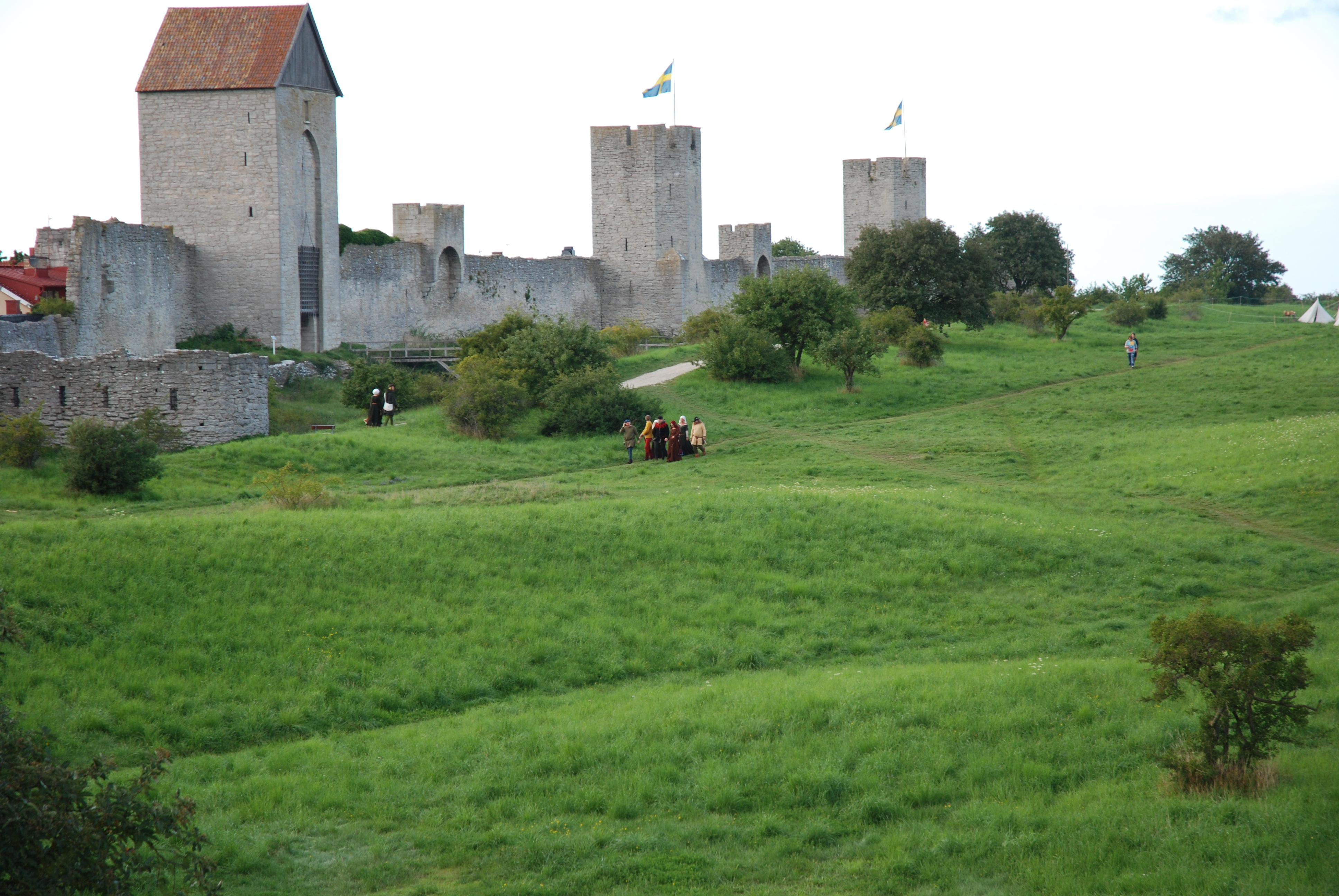 Visby, Gotland, Sweden, Eastern part of medevial wall